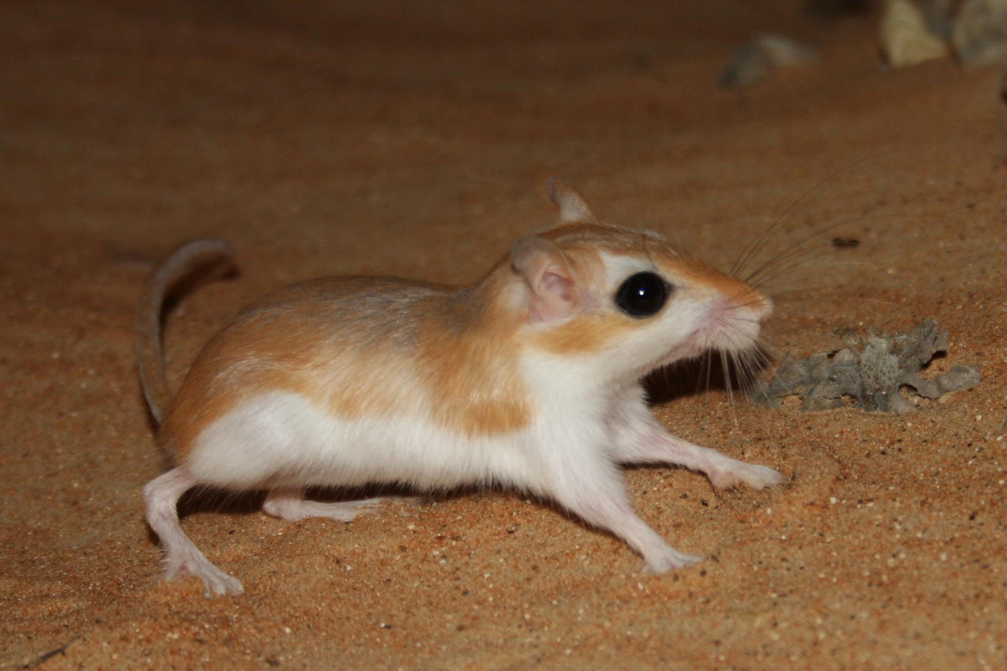 Cheesman's Gerbil photographed at Abaad Woods, near Al Ain, Abu Dhabi, UAE.